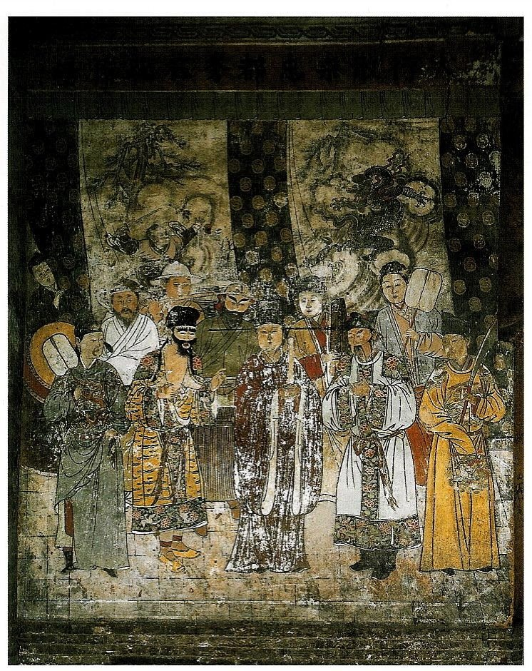 a large Yuan Dynasty (1279-1368 CE) mural in a hall (明应王殿) of the Guangsheng Temple (广胜寺) in Hongtong county (洪洞県), Shanxi province. On the top of this mural is a banner that reads Ráodū jiànài Dàxíng sǎnyuè Zhōng Dūxiù zàicǐ zuòchǎng Tàidìng yuánnián sìyuè (堯都見愛/大行散樂忠都秀在此作場/泰定元年四月 "Ráodū liked it. Zhōng Dūxiù, a famous actress of sǎnyuè performed here. The fourth month of year one in era Tàidìng.")